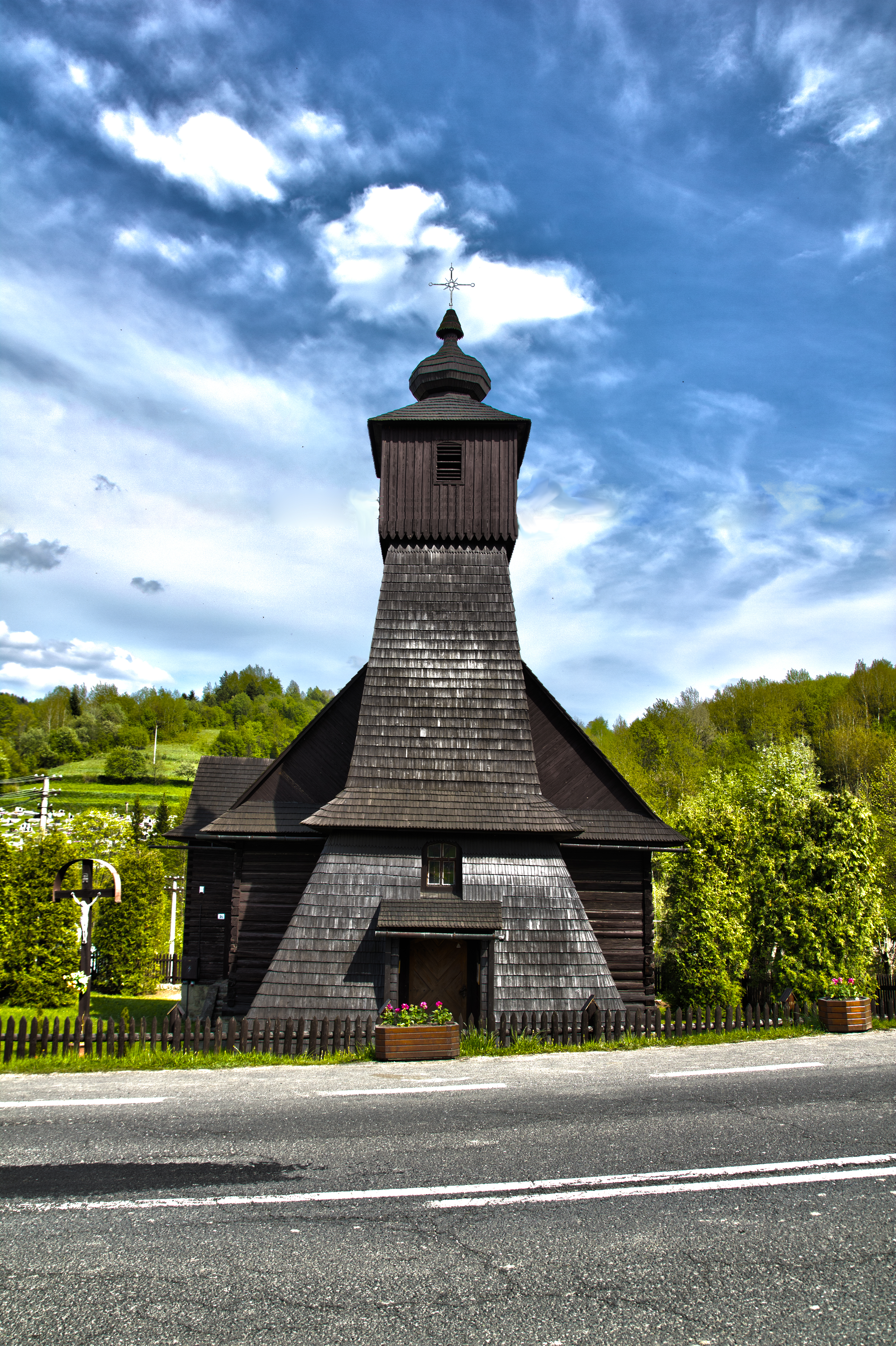 Church in Hraničné